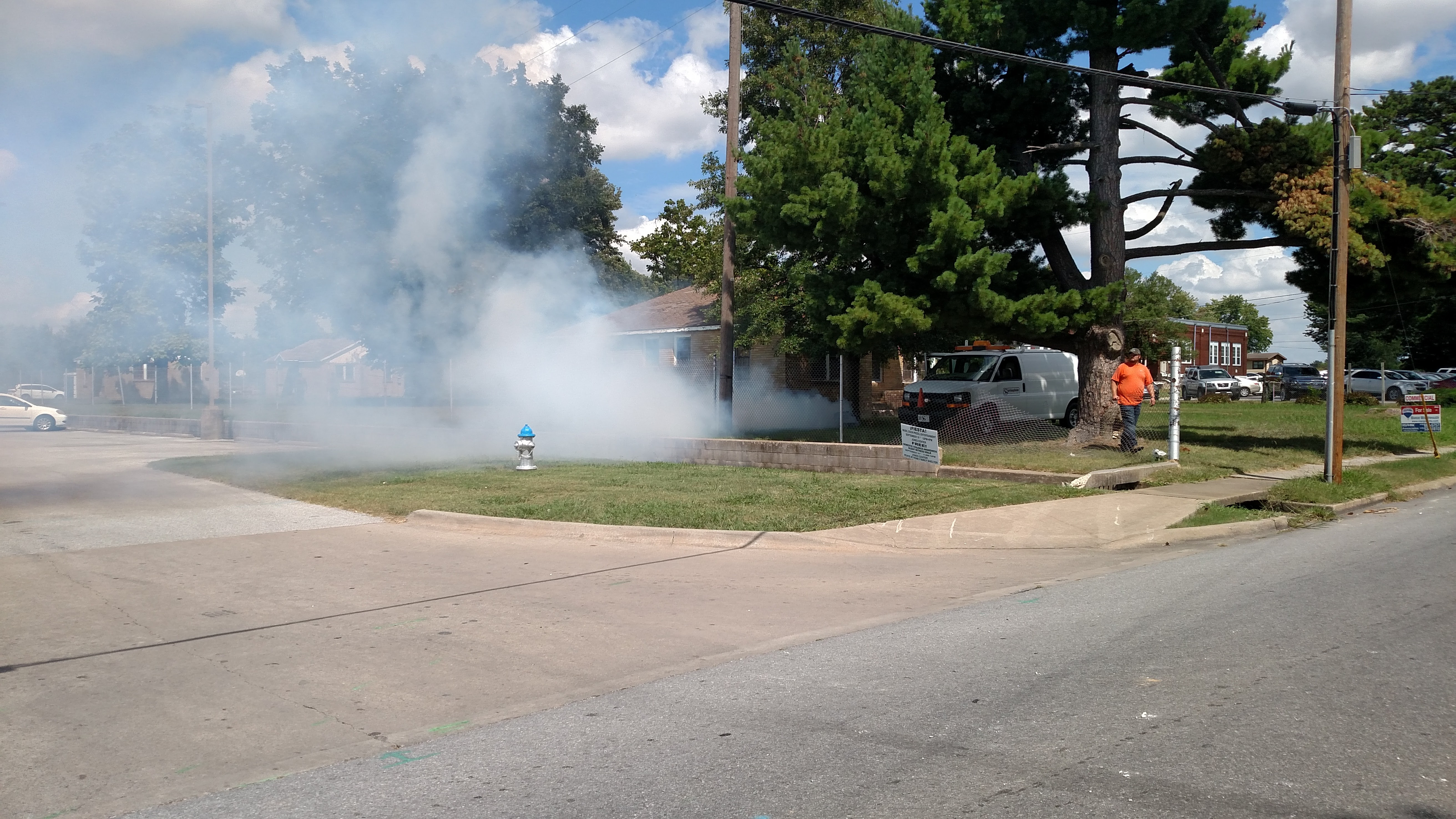 Smoke testing a sanitary sewer line in Springdale, Arkansas at 726 Emma Ave.